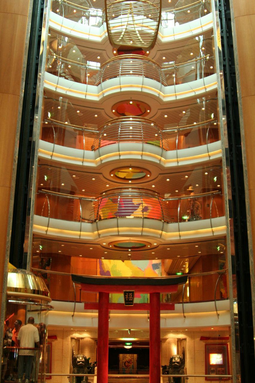 Adventure of the SeasView from Promenade